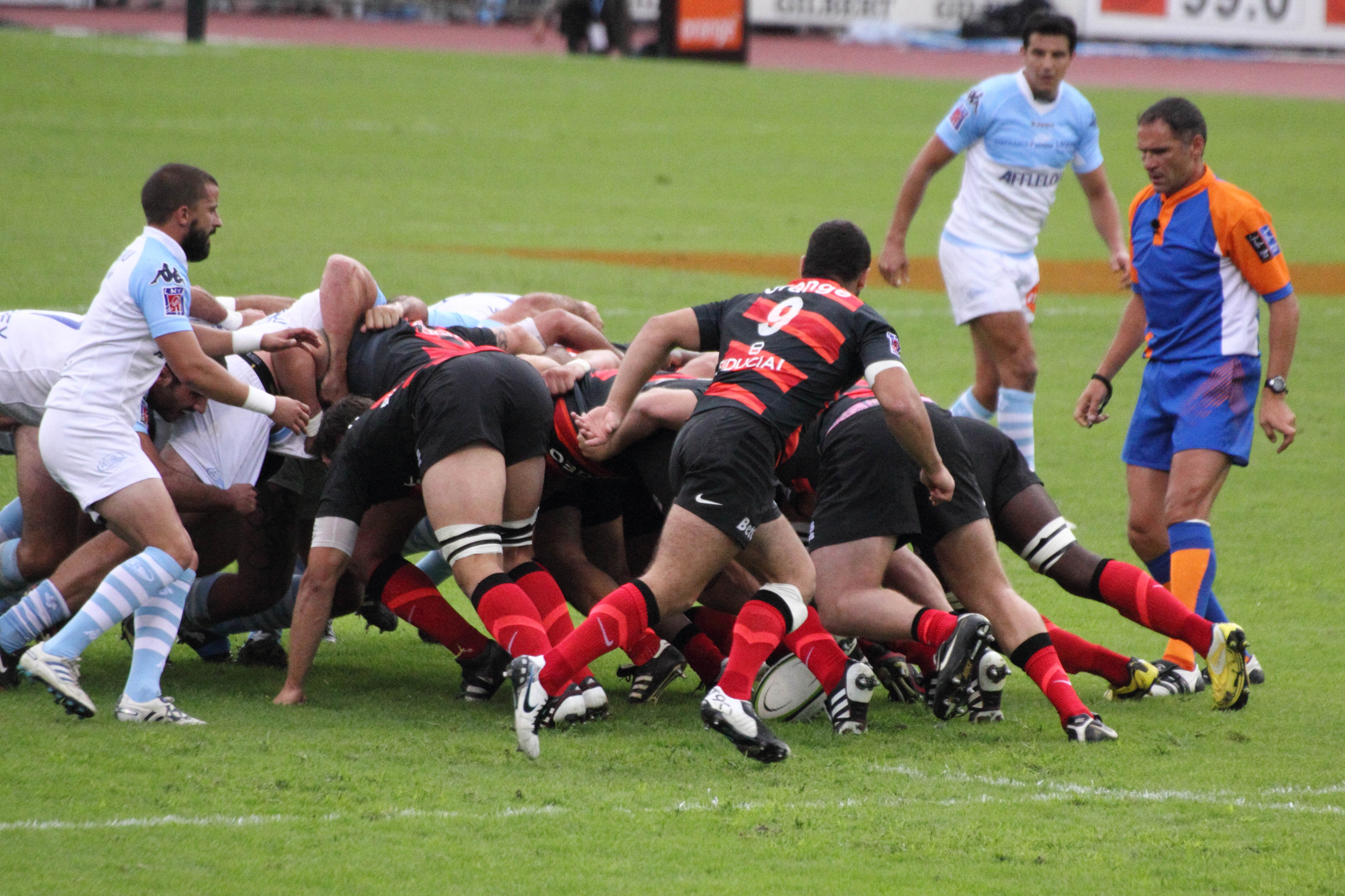 Jean-Marc Doussain behind the scrum